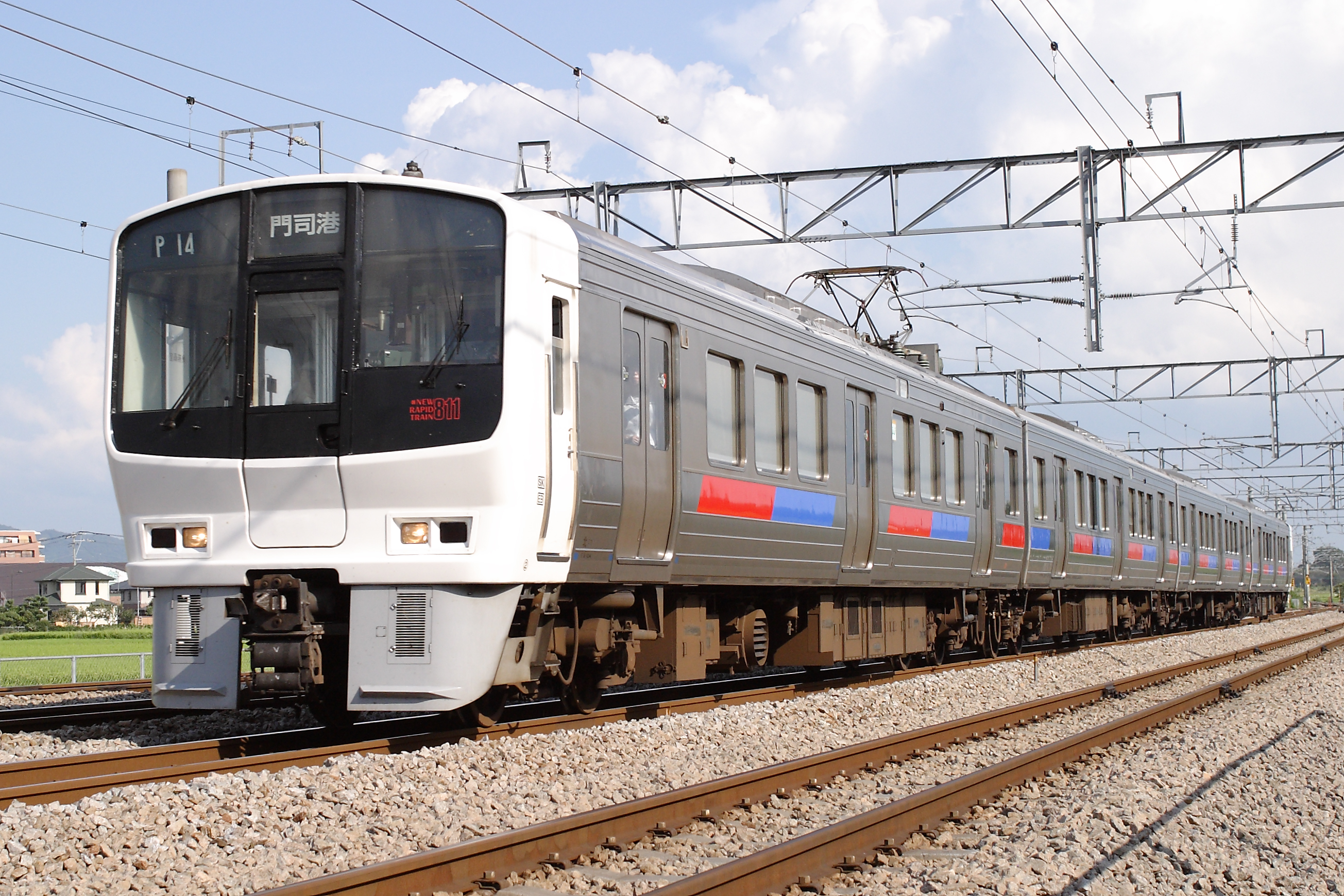 JR Kyushu 811-0 series EMU set P14 on the Kagoshima Main Line near Dazaifu